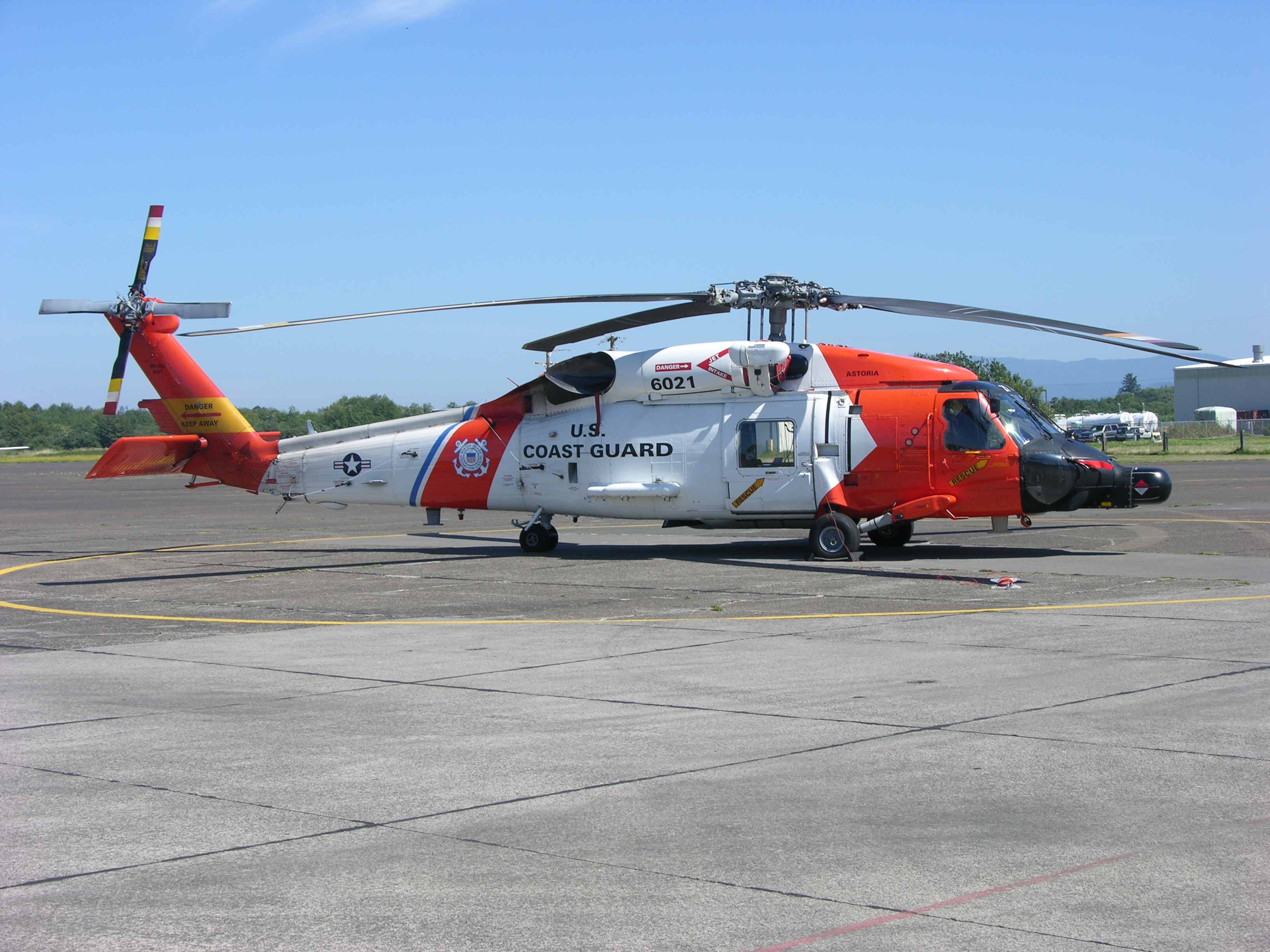 6021 MH-60J USCG at its Astoria Base